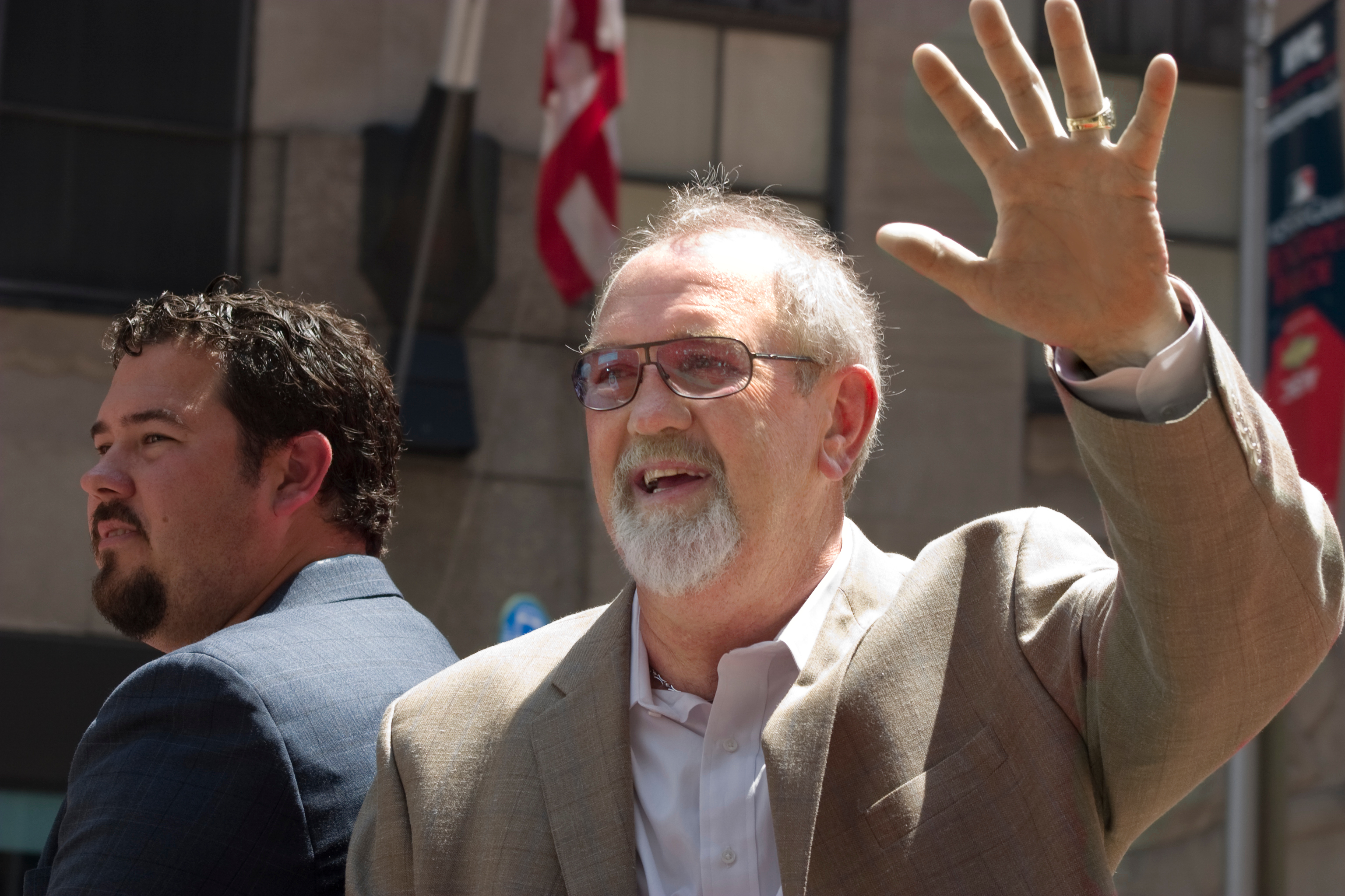 Hall of Fame baseball player Bruce Sutter at the 2008 All-Star Game Red Carpet Parade. photographer Martyna Borkowski